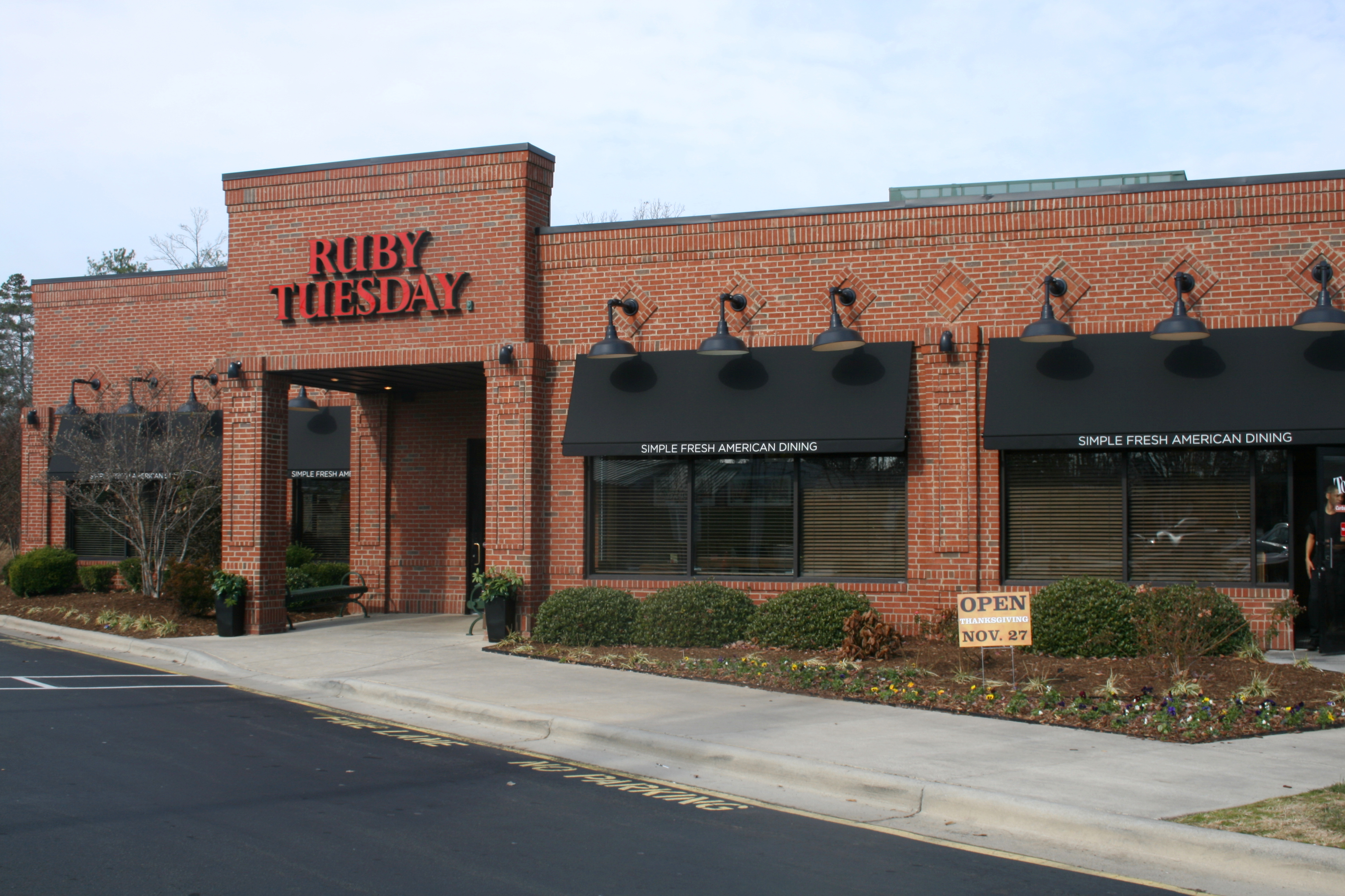 Ruby Tuesday on North Carolina Highway 54 in Durham, North Carolina.